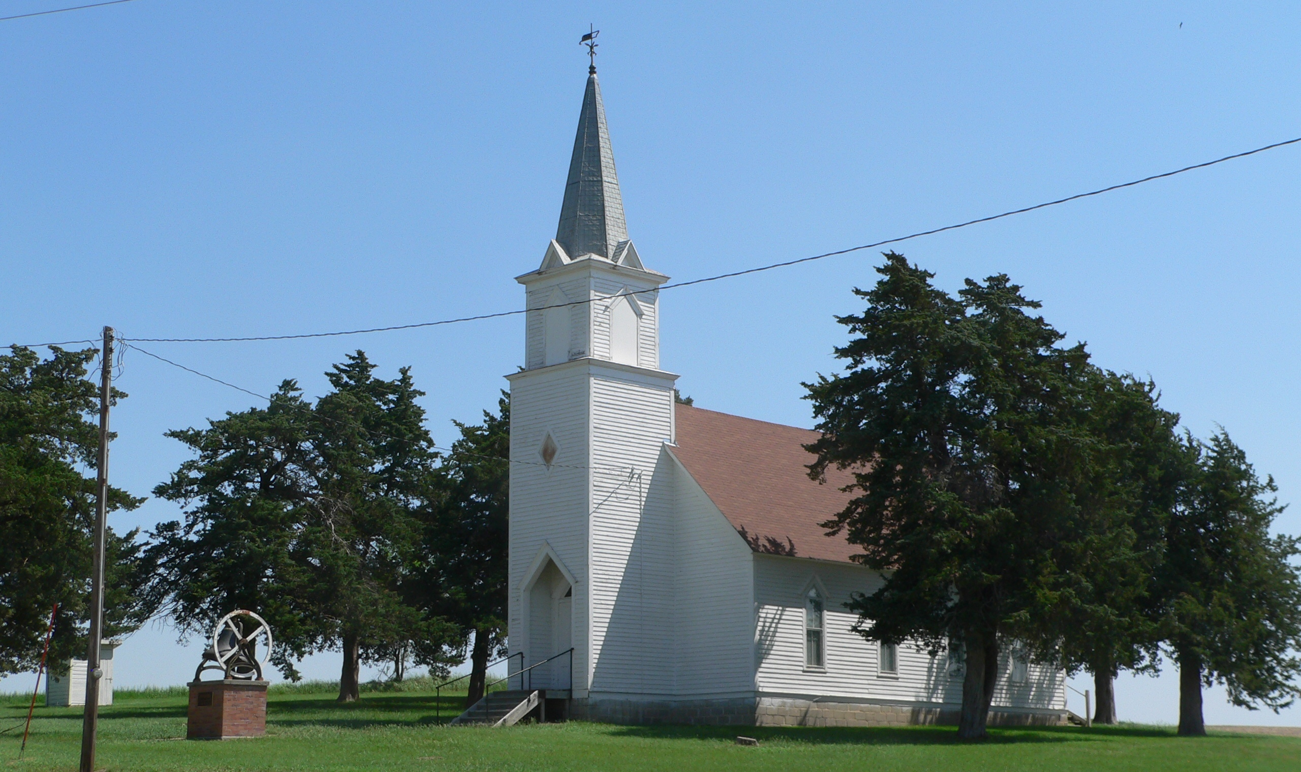 Dannevirke Danish Lutheran Church, at the northeast corner of county roads Dannevirke Road and Wausa, northwest of Elba in Howard County, Nebraska; seen from the southwest. The church was built in Gothic Revival style in 1906. With the community hall on the southwest corner of the intersection, it constitutes the Dannevirke Danish Lutheran Church and Community Hall, which property is listed in the National Register of Historic Places. The red cedar trees in the photo were planted in 1907. At lower left is the bell that formerly occupied the steeple; it was removed after the steeple was struck by lightning in 1994.